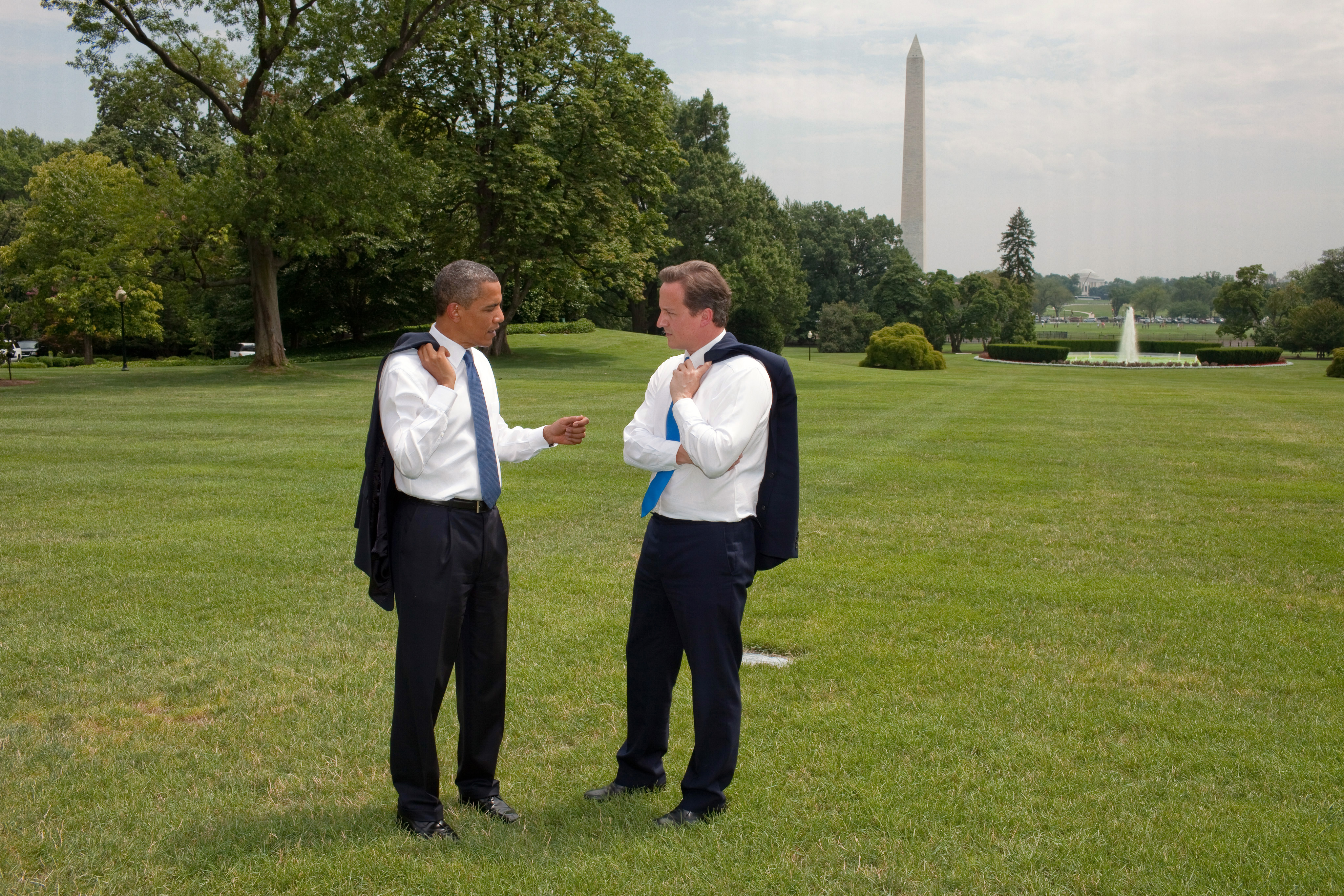 President Barack Obama and British Prime Minister David Cameron talk on the South Lawn of the White House, July 20, 2010.